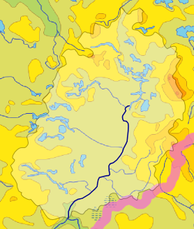 Žeimena basin / catchment area of Žeimena in relation to the Neman